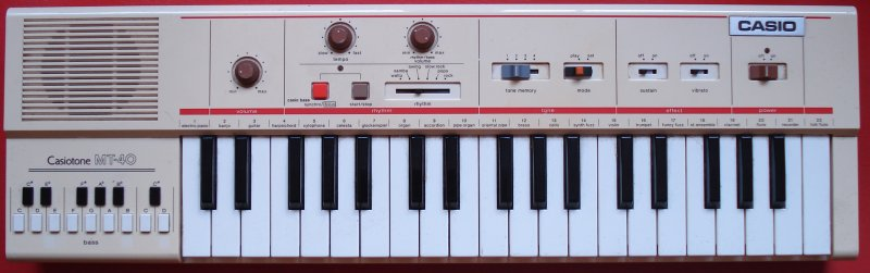 Photo of a Casiotone MT-40 musical keyboard